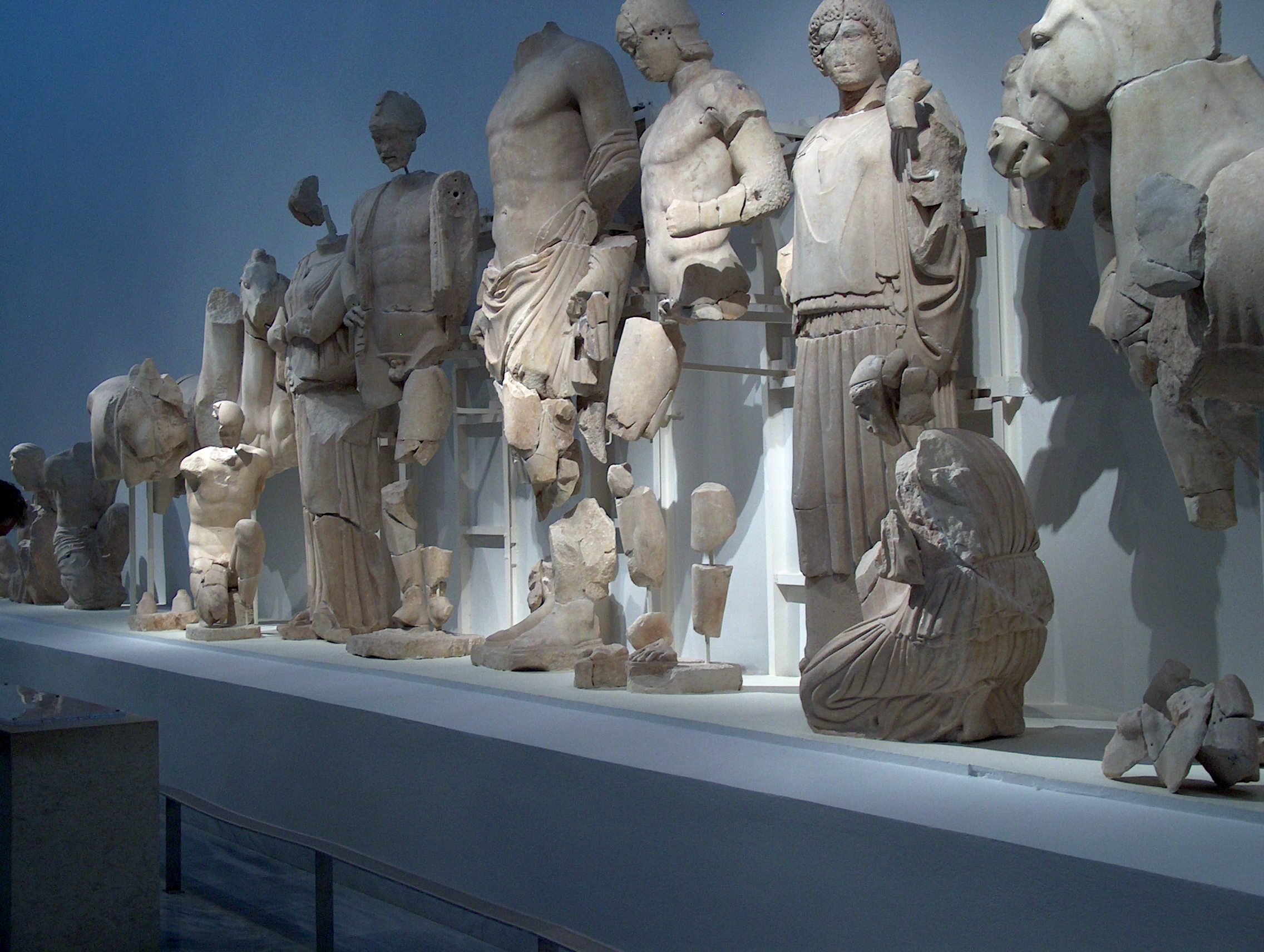 Sculptures of the east pediment of the Temple of Zeus at Olympia. Olympia Archaeological Museum.